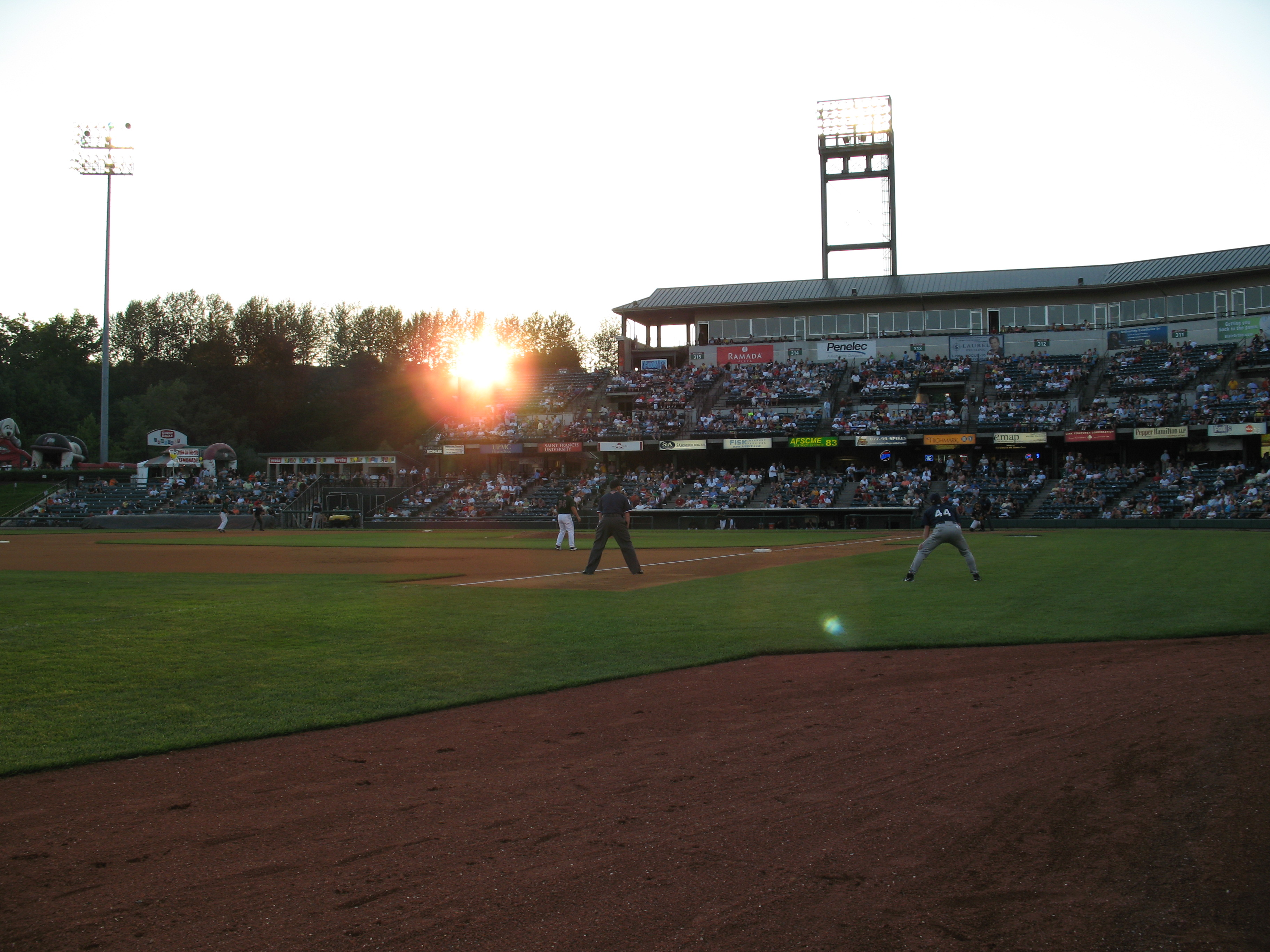 Blair County Ballpark, Altoona, Pennsylvania